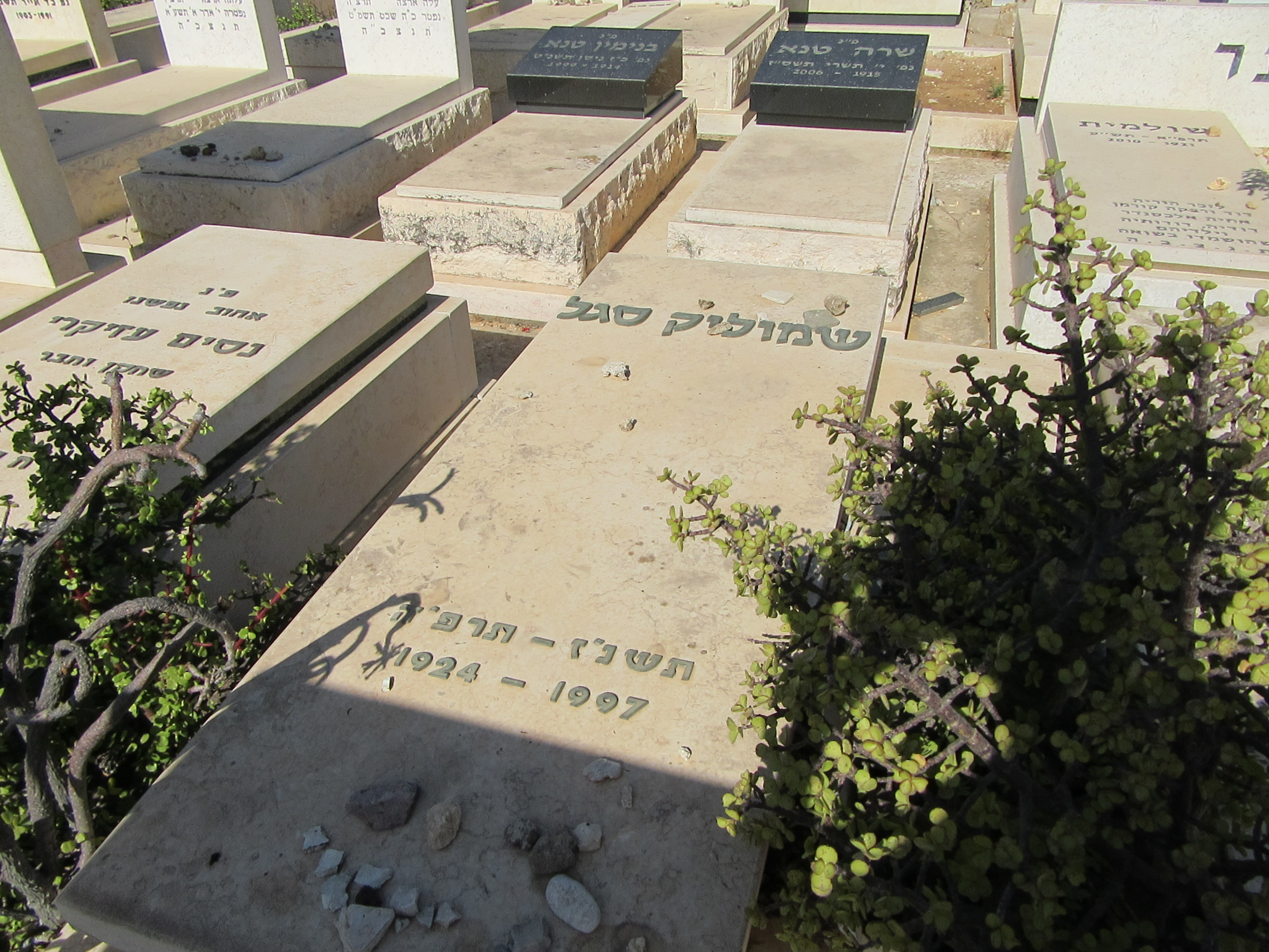 Grave of Shmuel Segal